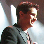 Tommy Tallarico at the Video Games Live event in Toronto